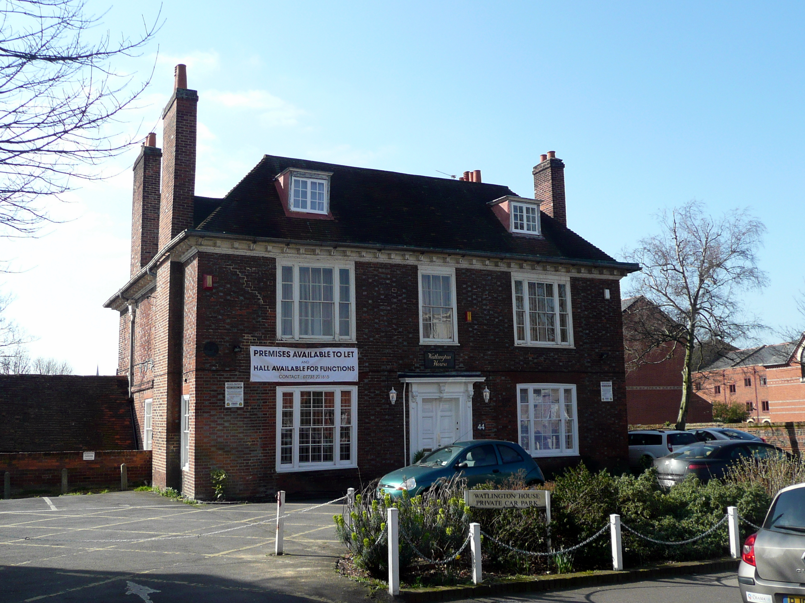 Watlington House, Watlington Street, Reading. A clothier's house of 1688 with a 1720s frontage (later windows).